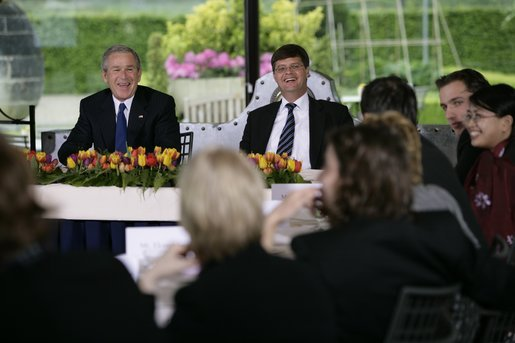 U.S. President George W. Bush and Prime Minister Jan Peter Balkenende of The Netherlands, smile as they answer questions during a youth roundtable Sunday, May 8, 2005, in Valkenburg, Netherlands. White House photo by Eric Draper